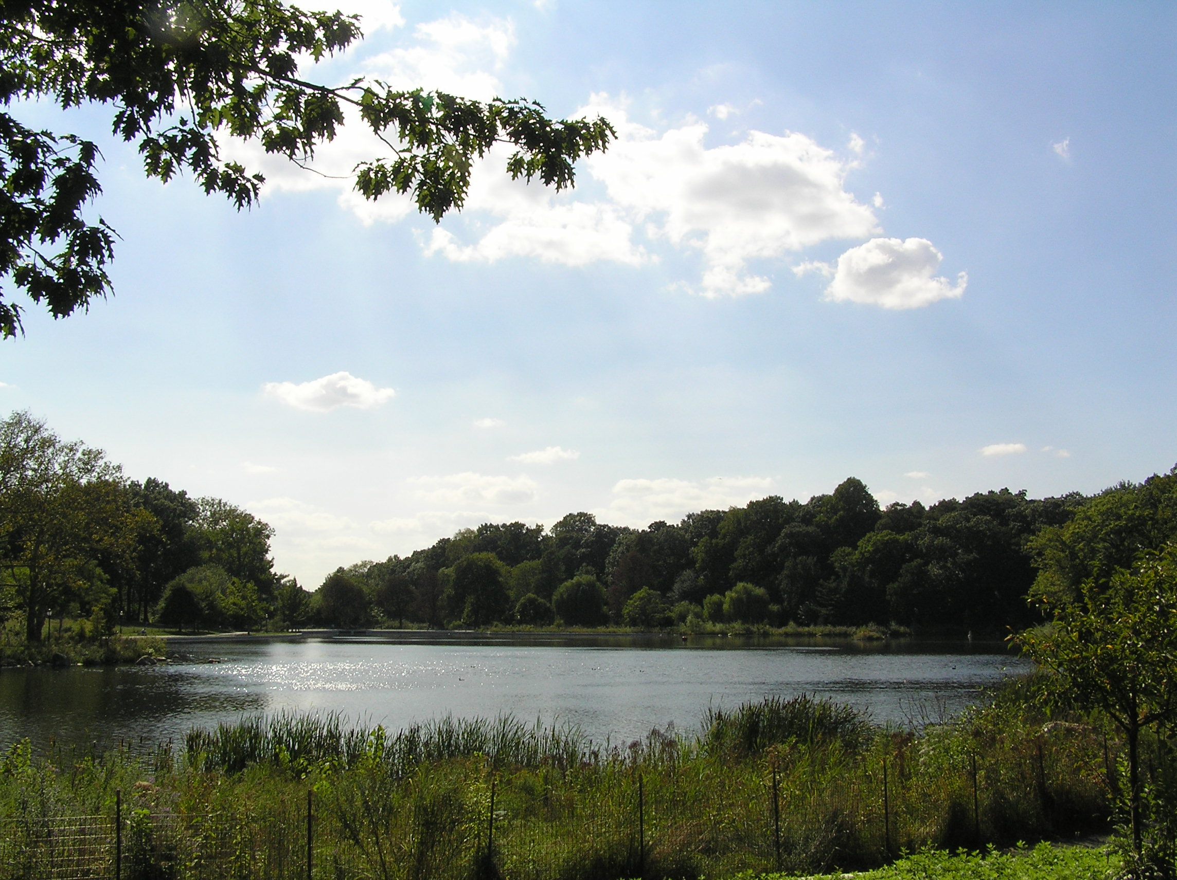 A shot of the pond in Kissena Park taken from the eastern end of the park.